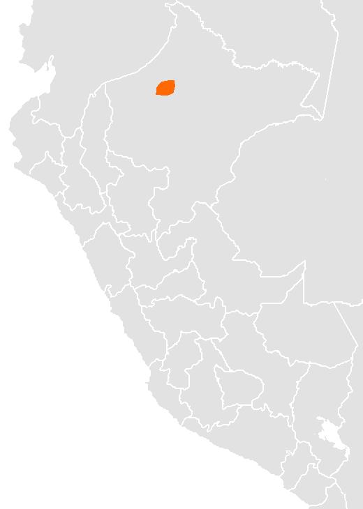 Taushiro language after Ethnologue: Languages of Perú